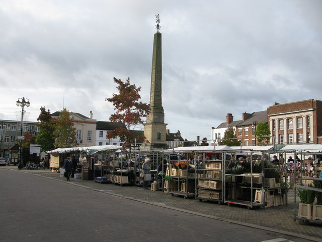 Ripon Market and Obelisk, Market Place, Ripon